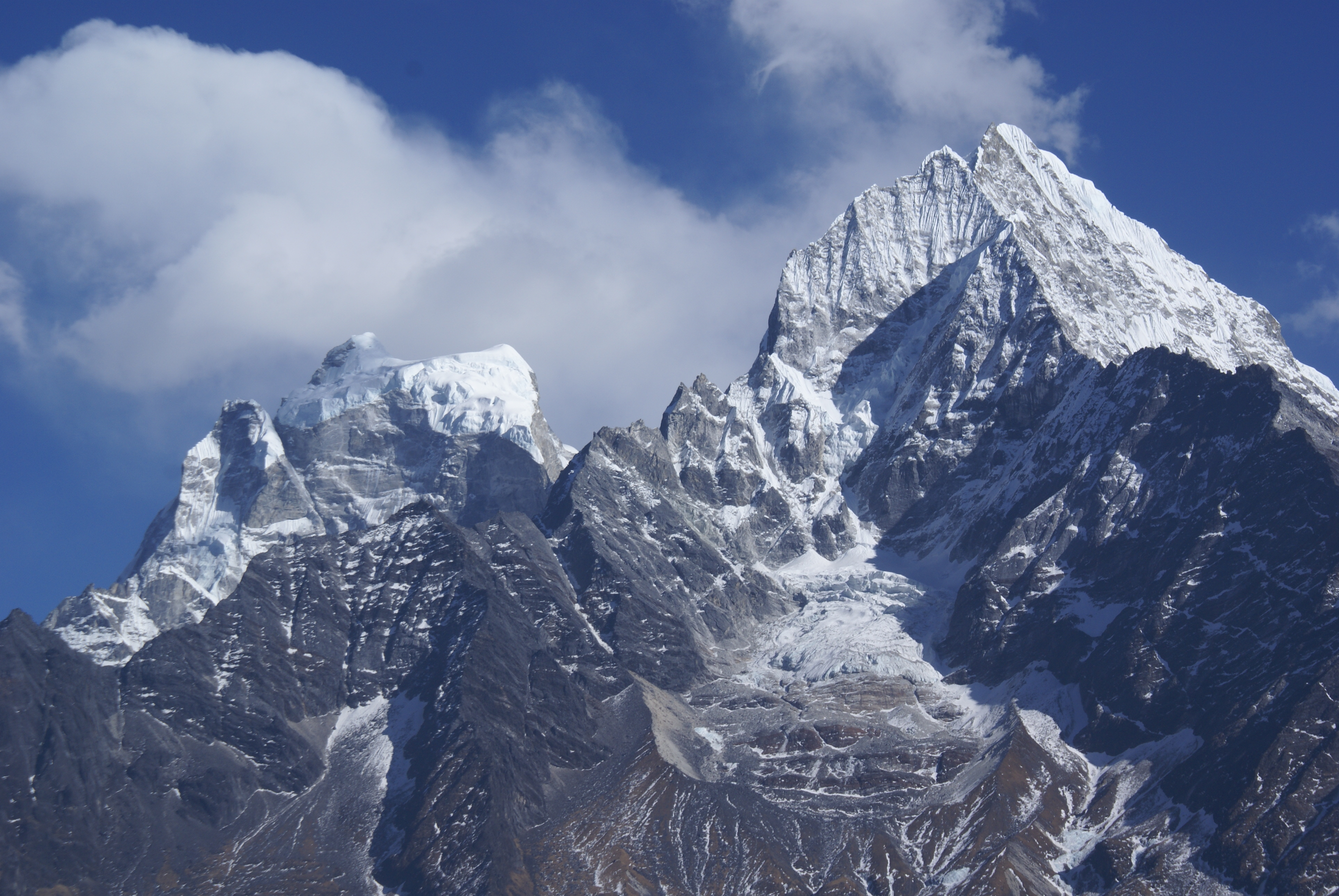 Kangtega & Thamserku, Sagarmatha National Park, Nepal